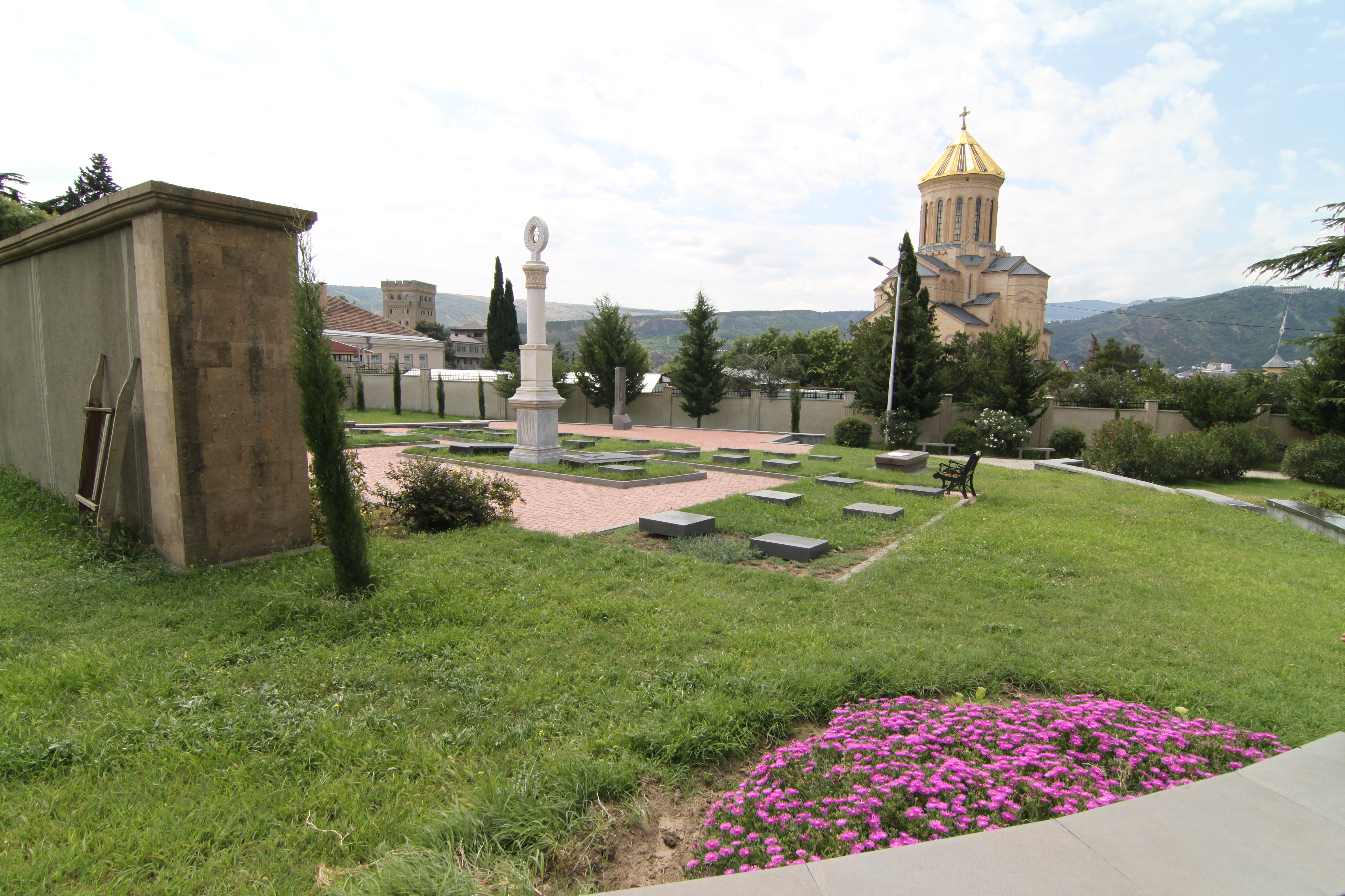 View of the Georgian Sameba Cathedral built on the grounds of the Armenian Pantheon of Tbilisi, as viewed from the remaining, significantly smaller, portion of the Armenian Pantheon of Tbilisi.